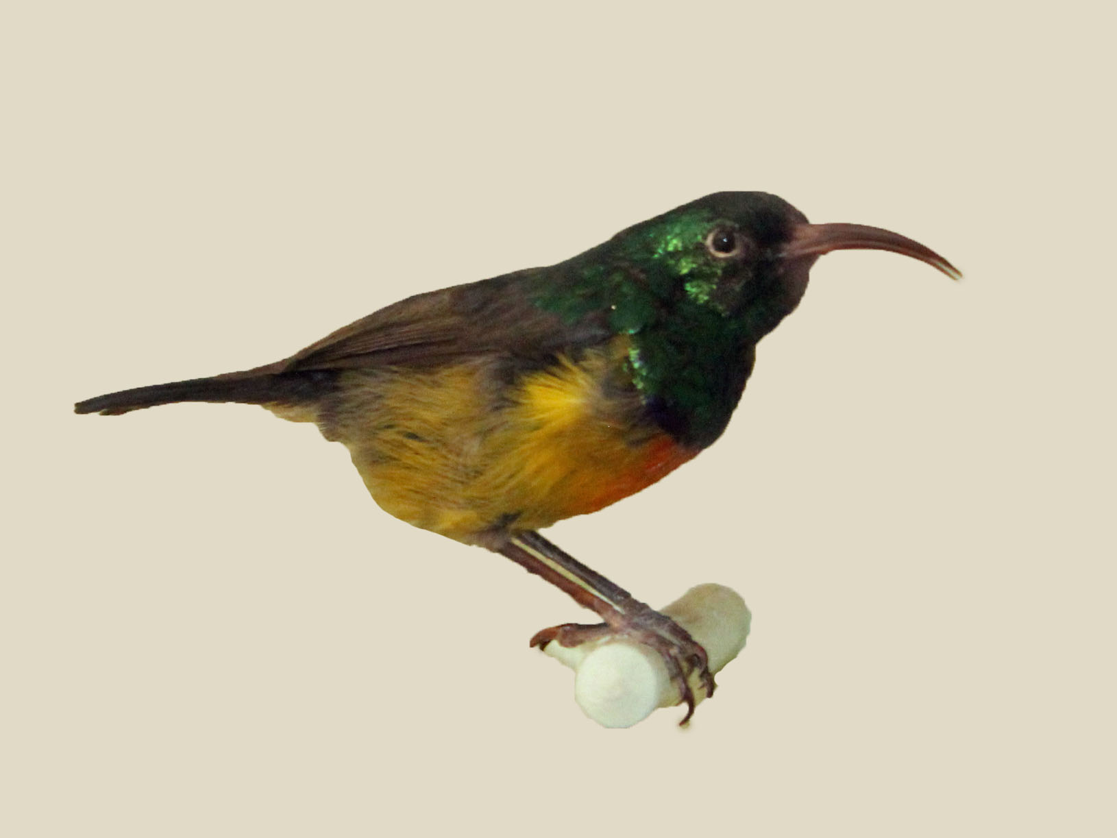 Loveridge's Sunbird (Cinnyris loveridgei). Photograph of a specimen at Nairobi National Museum in Nairobi, Kenya.